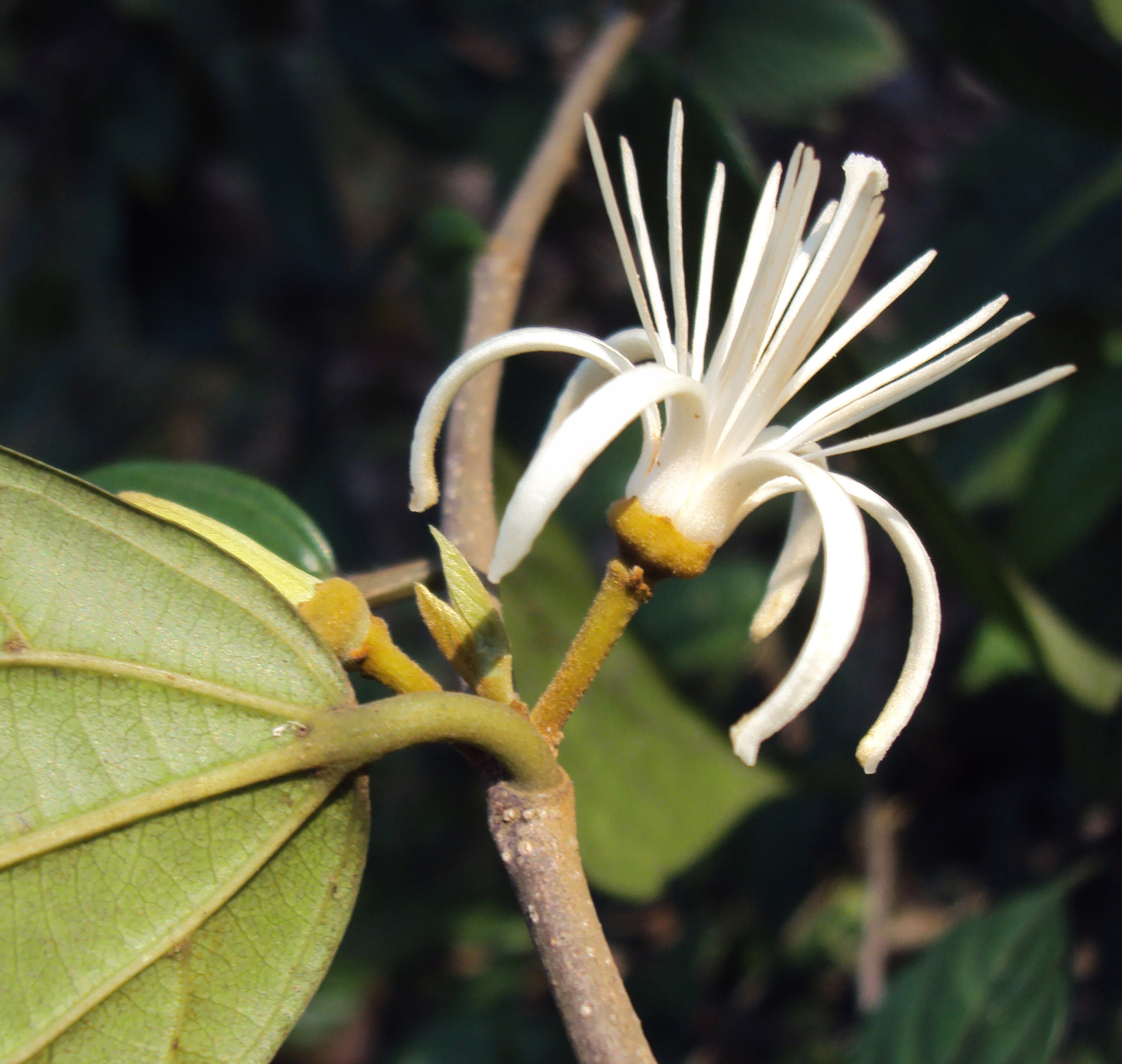 Alangium salviifolium